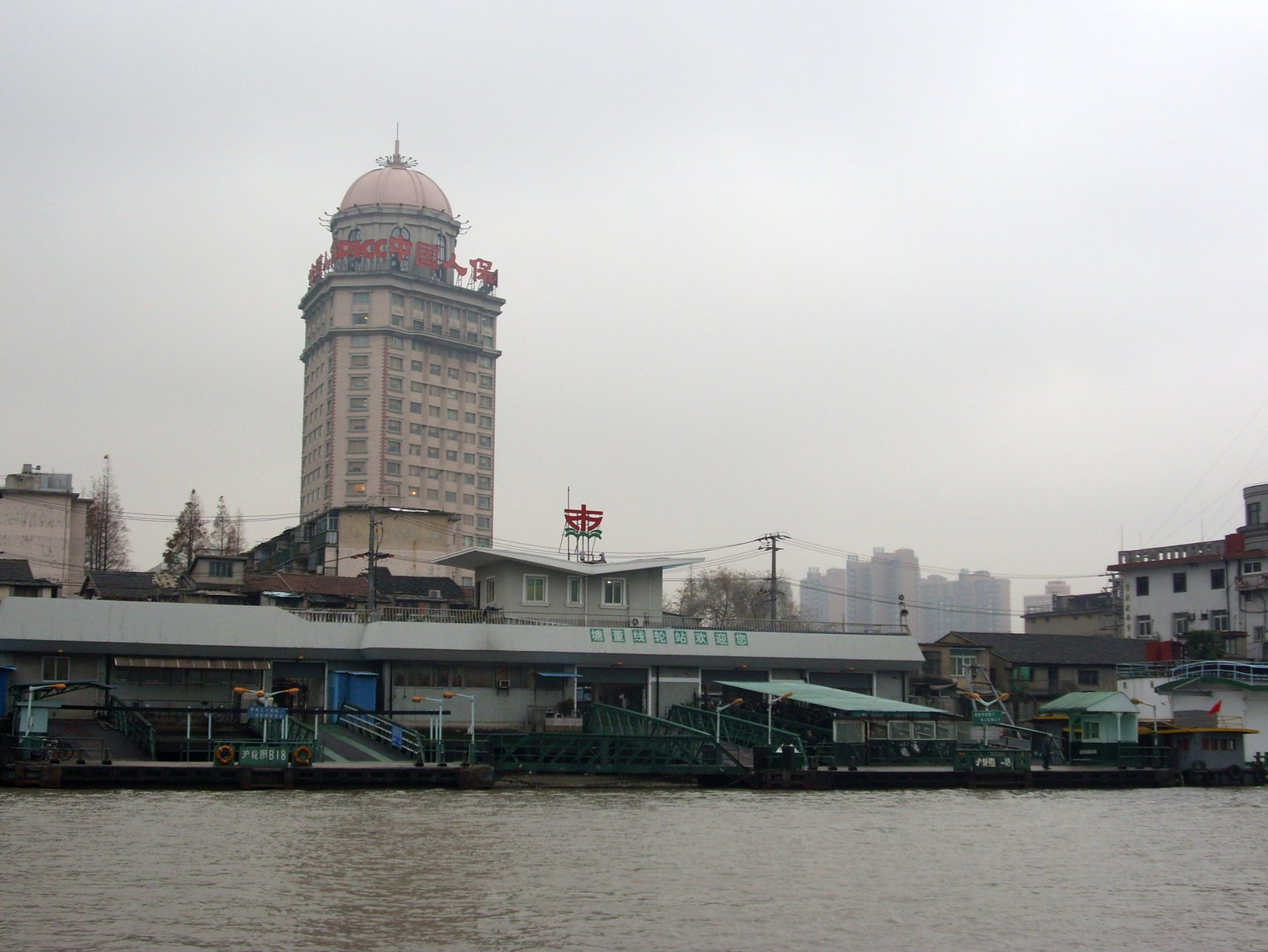 Dongjiadu Ferry